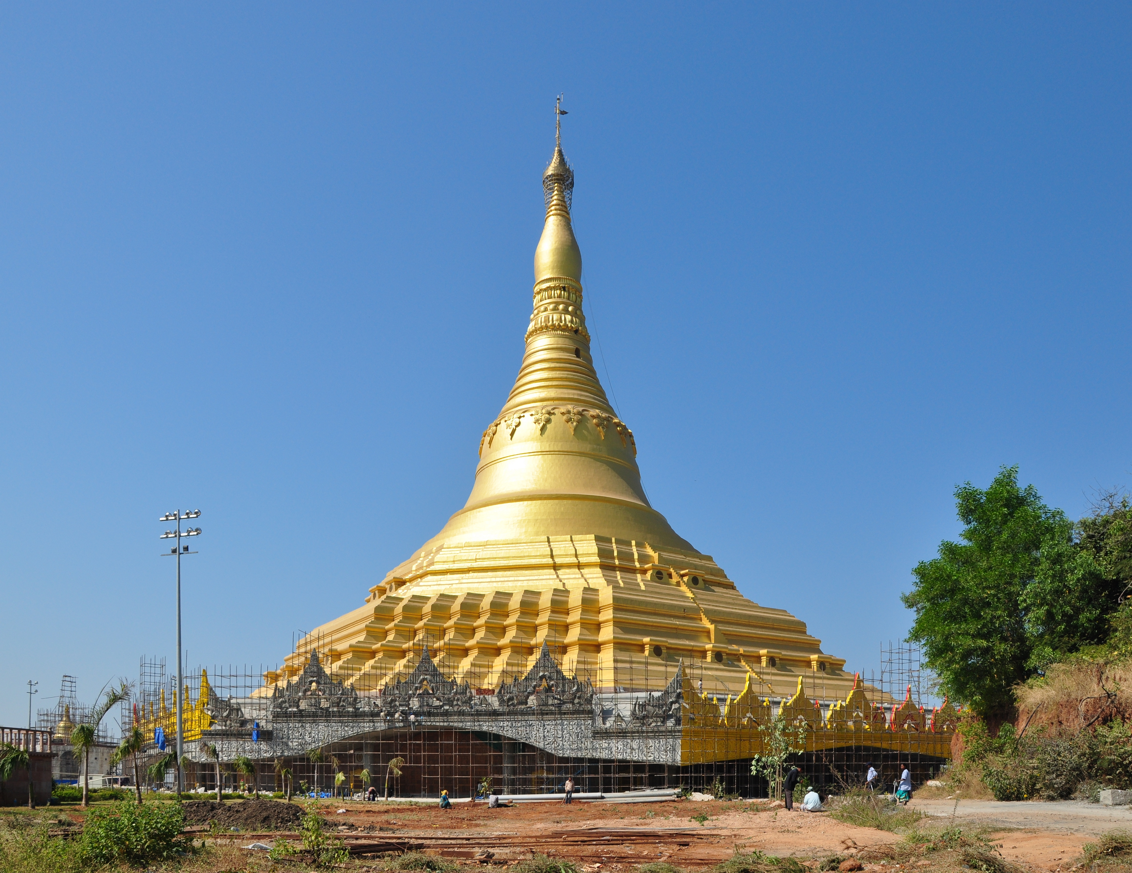 The Global Vipassana Pagoda under construction in Mumbai, India.